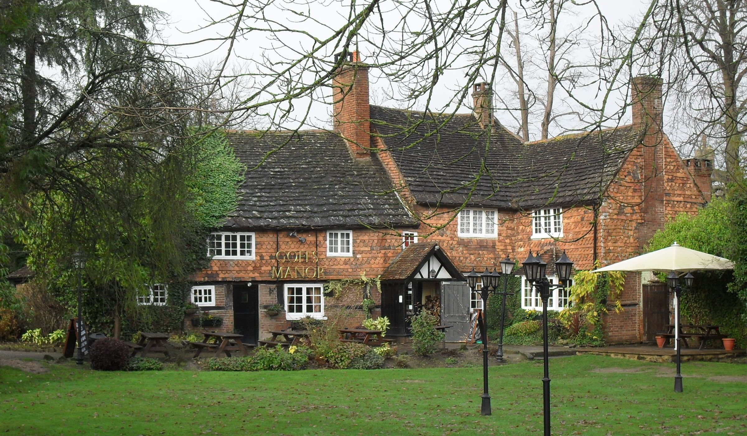 Goffs Manor, Goffs Park, Southgate, Crawley, West Sussex, England. A 16th-century timber-framed house which has been converted into a pub. Listed at Grade II by English Heritage (IoE Code 363359)